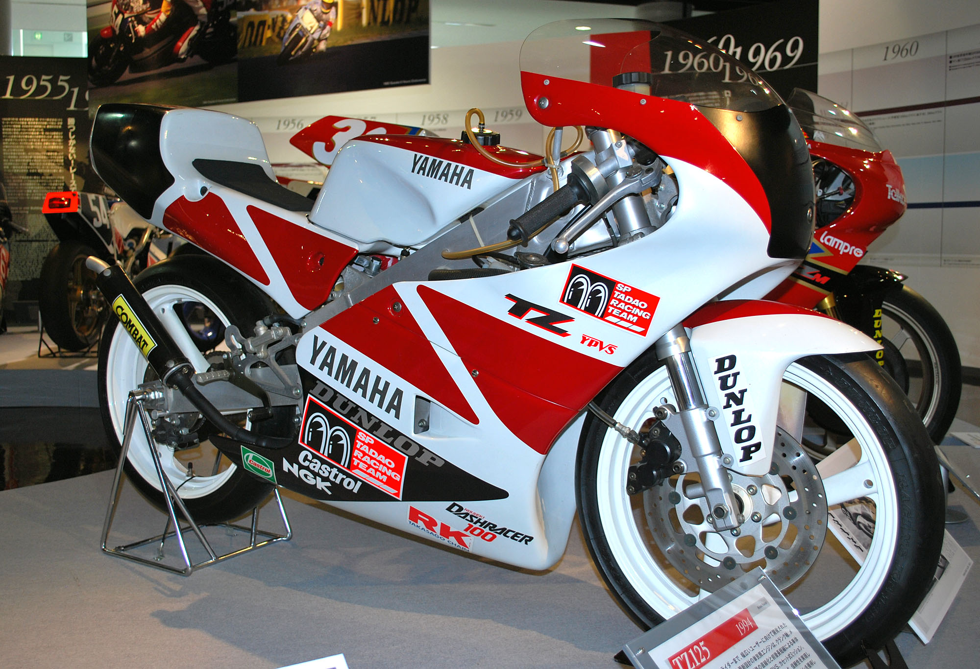 Yamaha TZ125(1994)